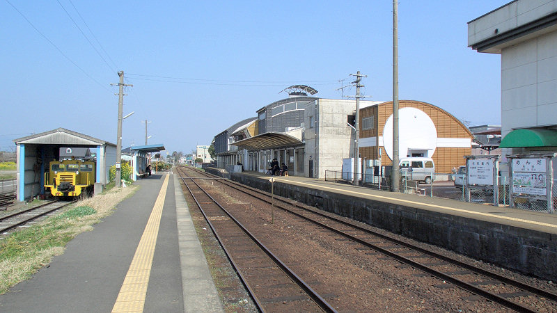 Kumagawa Railroad Menda Station (now Asagiri Station) platform, view towards Yunomae, 22 March 2007